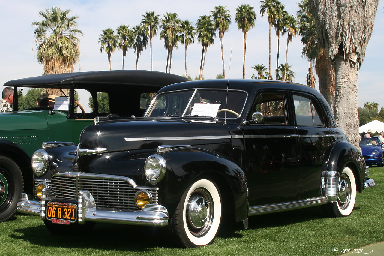 1942 Studebaker Commander Custom Cruising Sedan